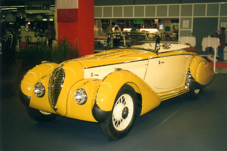 1935 Talbot T120 "Baby" Roadster, 6 cylinder, 2996 cm³, 17 CV Chassis 85221 Engine no. 77080 Drophead coupé body by Talbot follows a Figoni design this particular car's distinctive front mudguards and Delahaye-style grille were added postwar more information